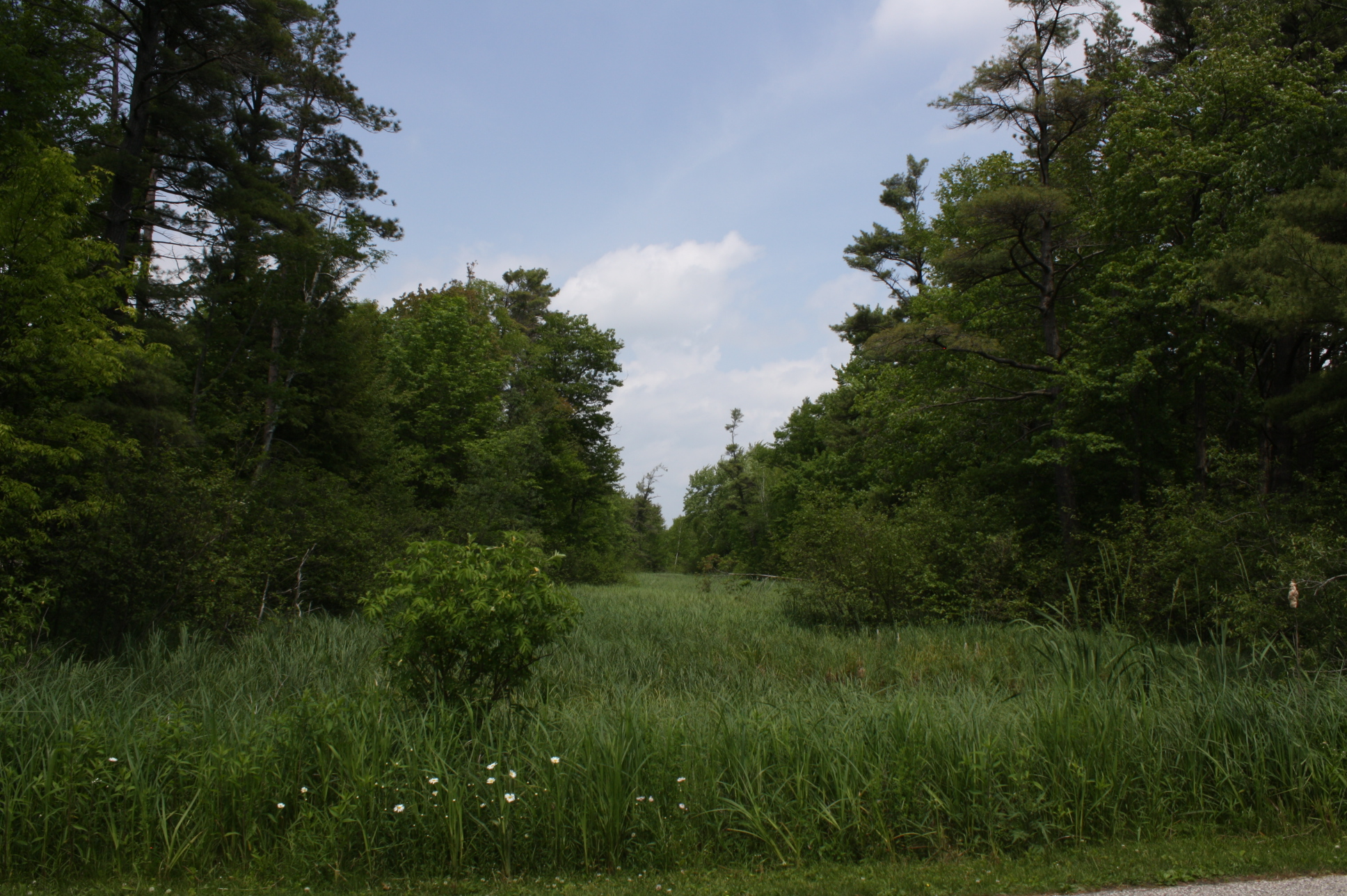 The Point Beach Ridges, a Natural National Landmark in Manitowoc County, Wisconsin. The ridges are a series of natural ridges and swales left from dropping water level on Lake Michigan. The ridges are forested on the left and right hand side of the photo with a swale in the center. They are located in the Point Beach State Forest.